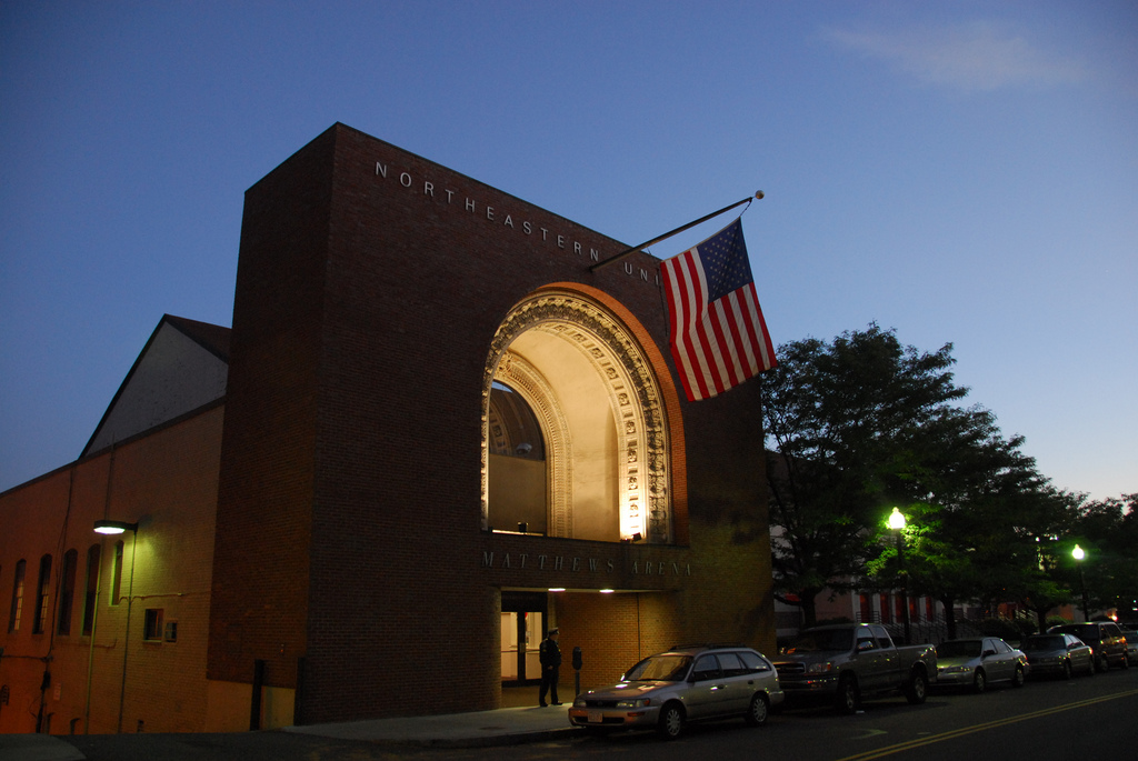 Matthew's Arena - world's oldest indoor ice hockey arena at Northeastern University